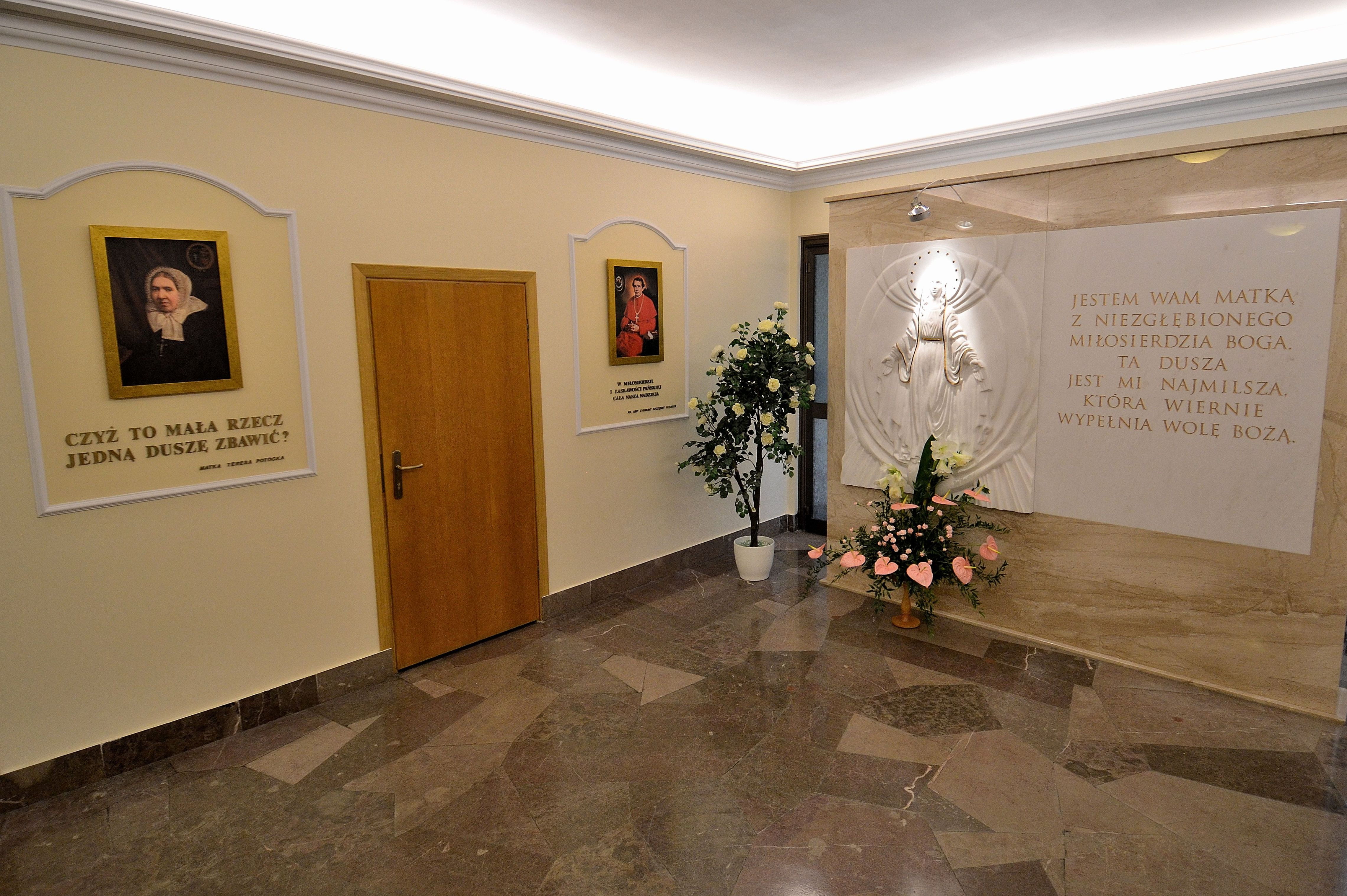 Congregation of the Sisters of Our Lady of Mercy at 3/5 Żytnia Street in Warsaw